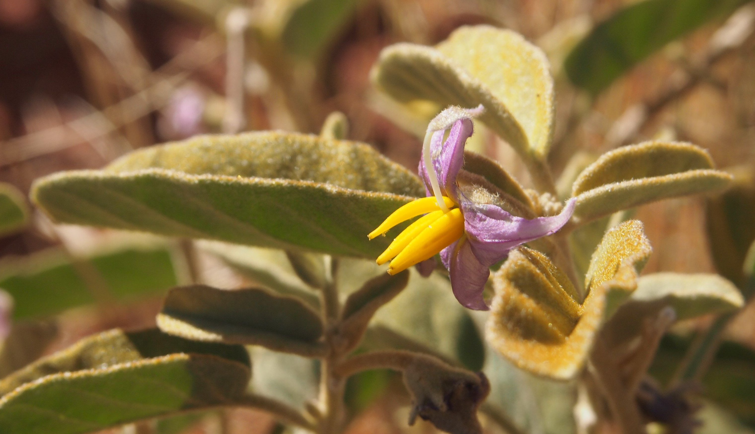 Solanum centrale flower